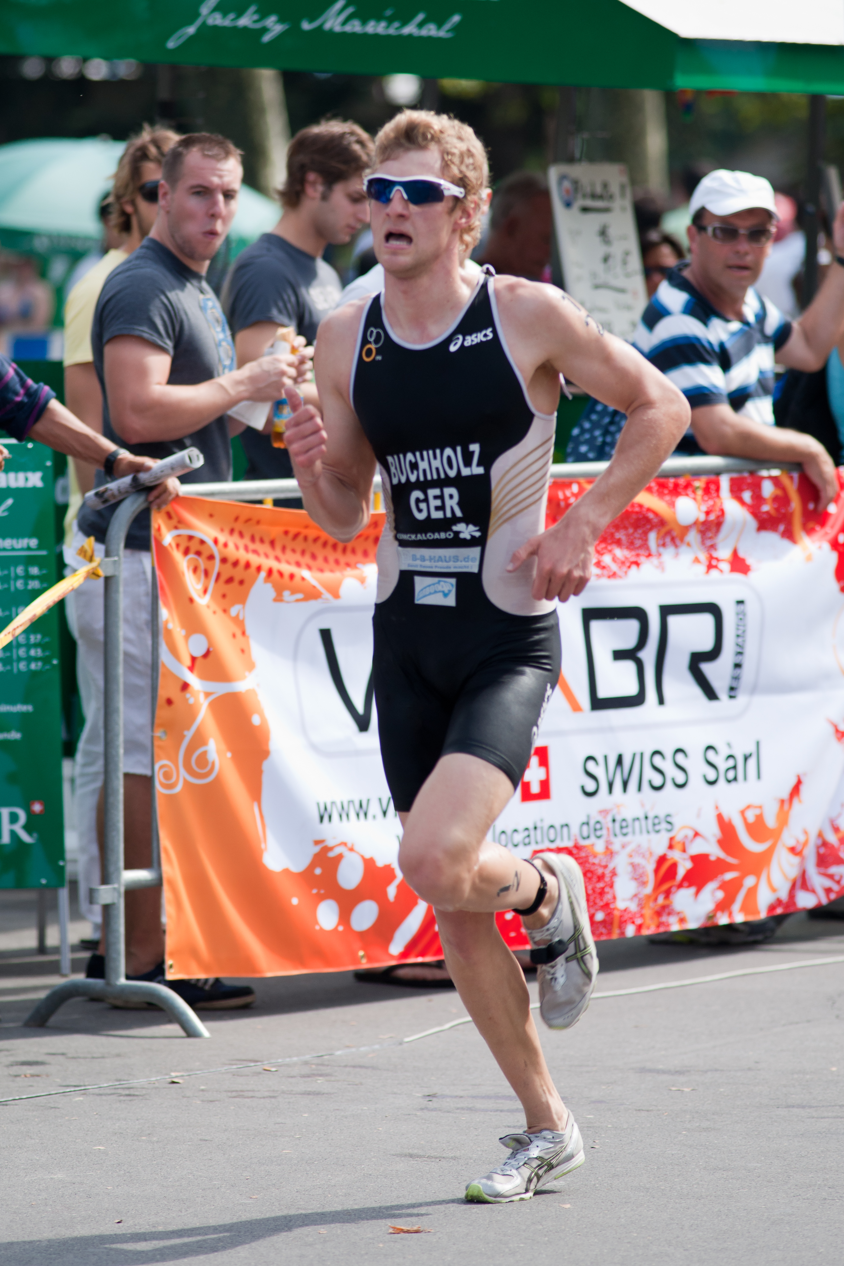 2010 ITU Sprint Distance Triathlon World Championships, Lausanne, Switzerland.